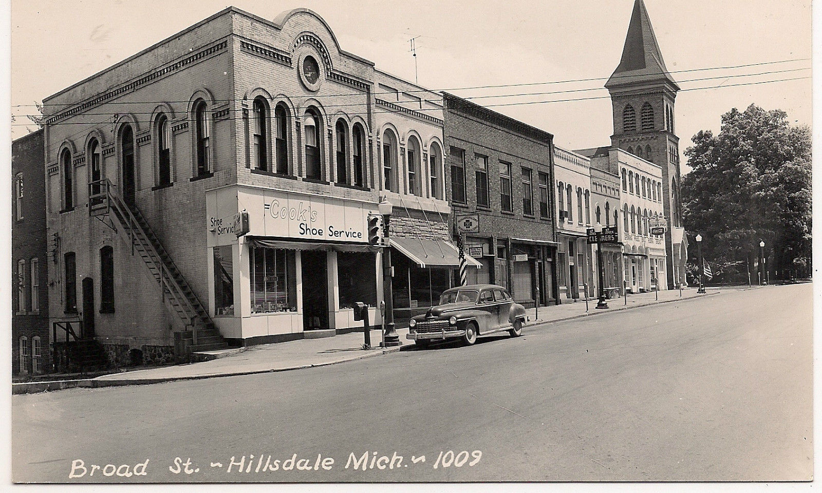 Broad Street Hillsdale MI c 1950